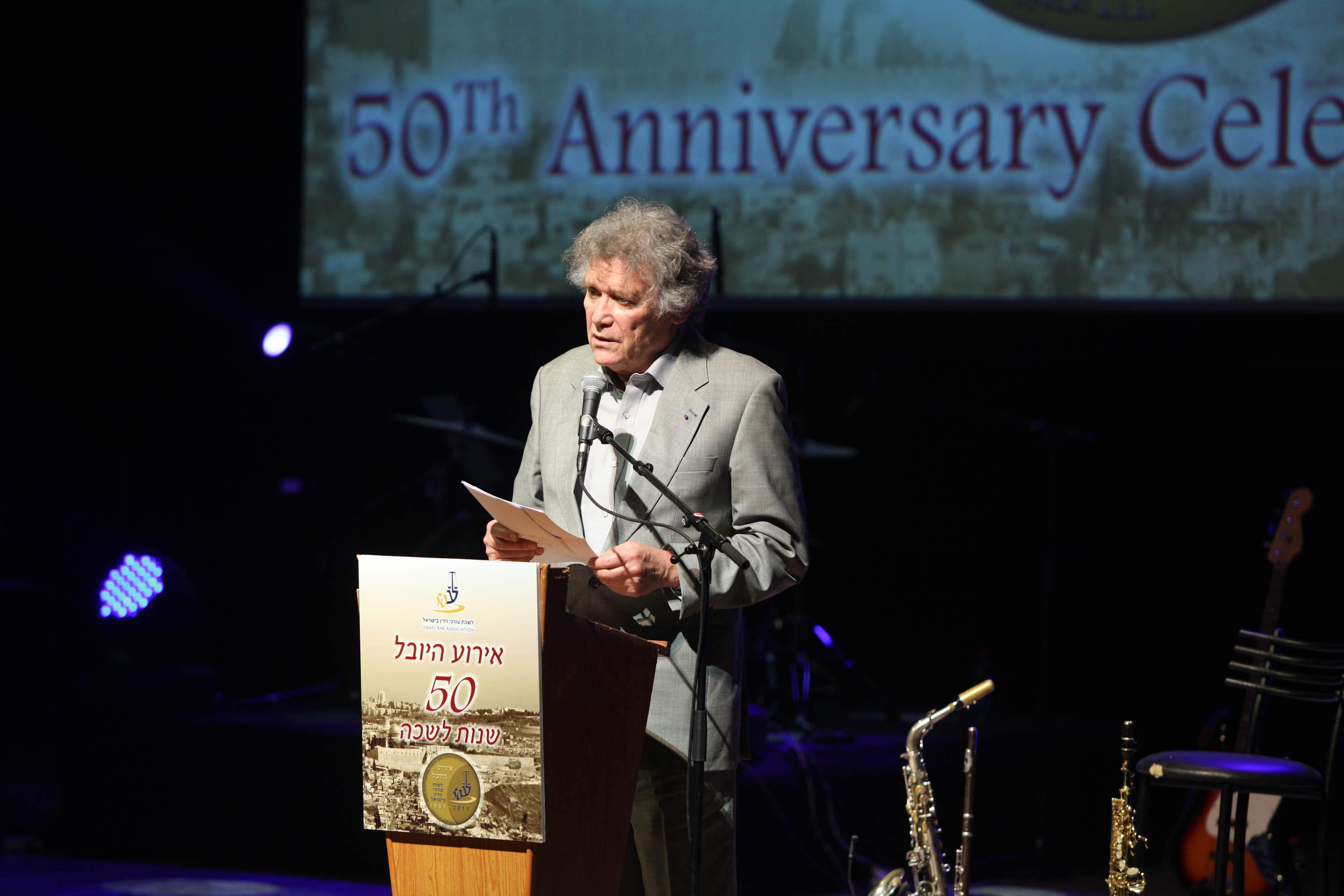 Bar lecture